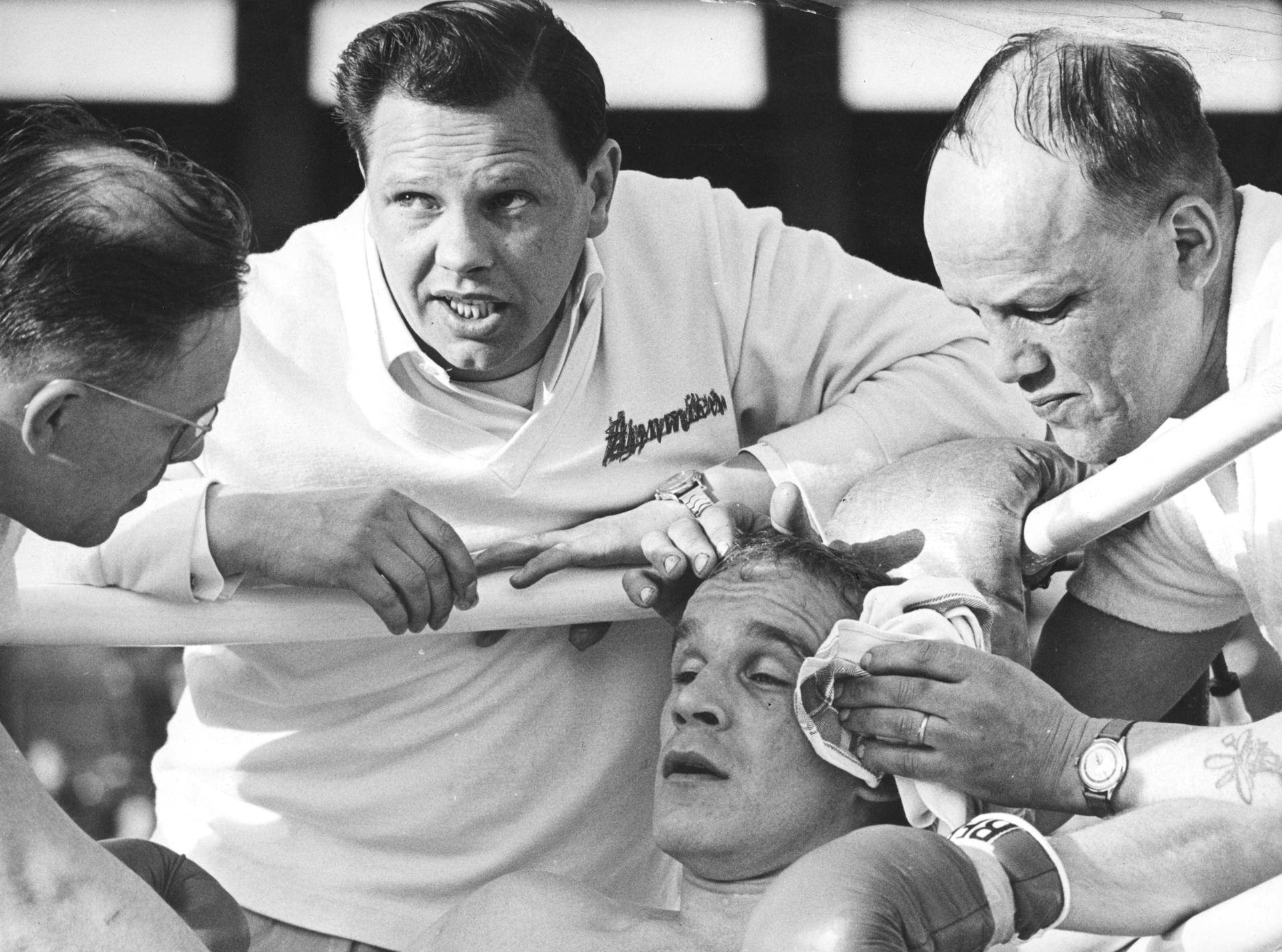 Photograph of the Finnish boxer Olli Maki (sitting) with Olavi Vartainen (left), Elis Ask and Leo Vartiainen, in Stockholm.